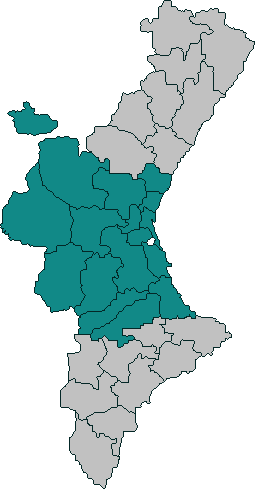 Localisation of València province in the Land of Valencia with que comarcal borders